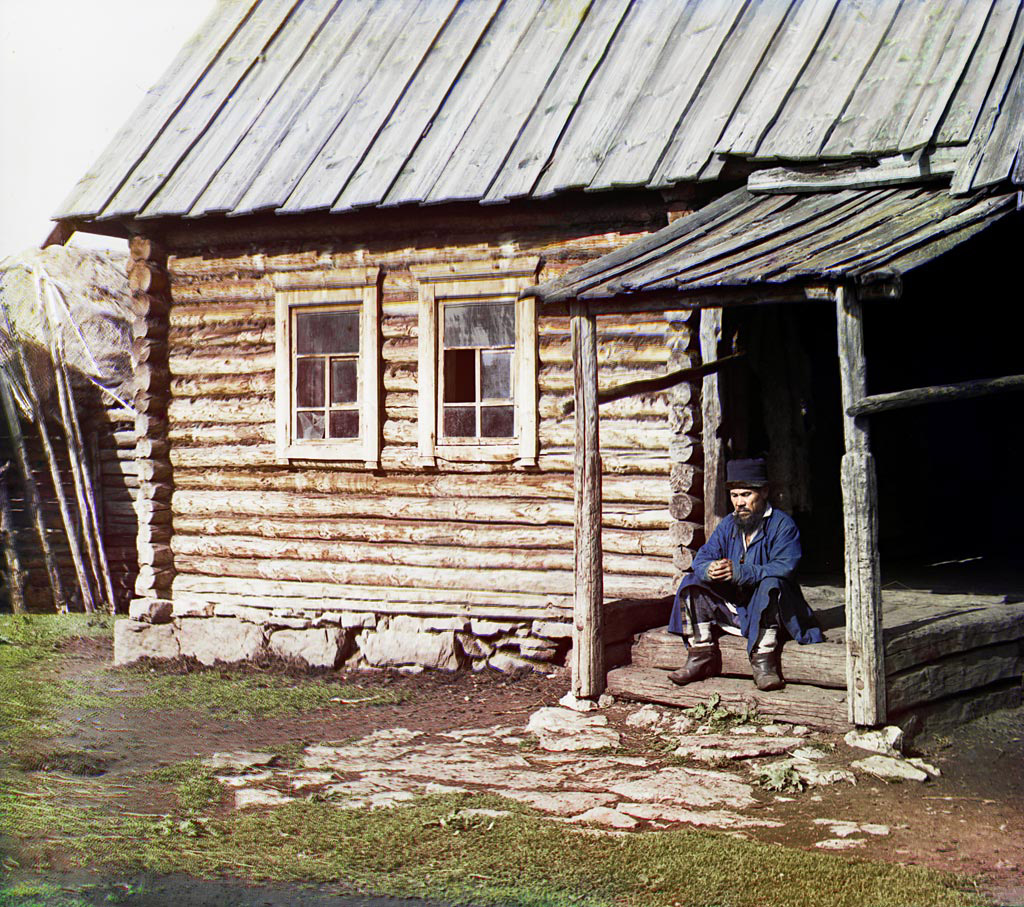 Bashkir man at his home (Ehya)